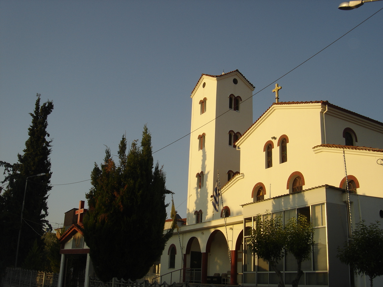 The church of Kosmas Aetolos in Andromahi.